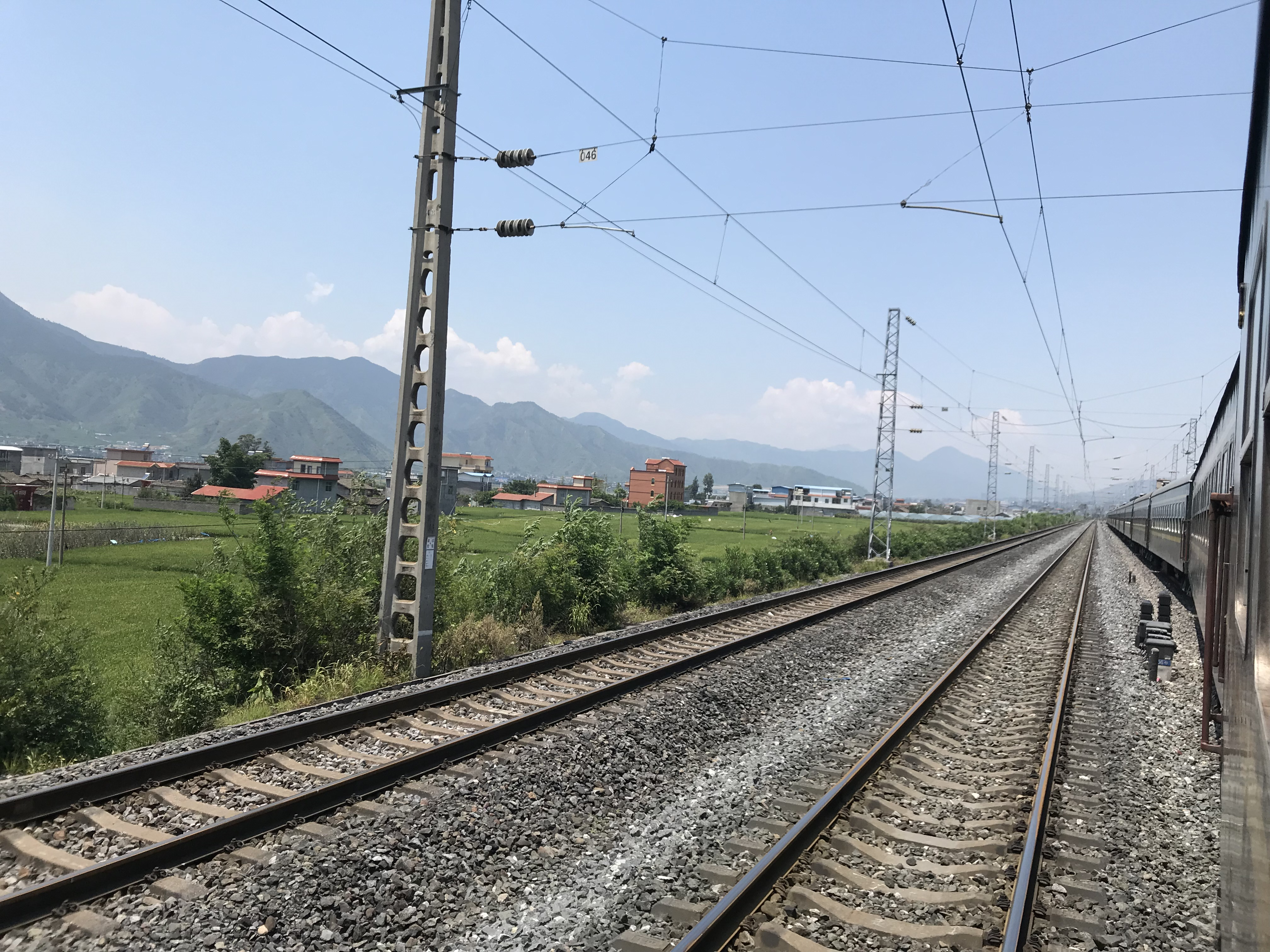 201908 Tracks at Yuehua Station